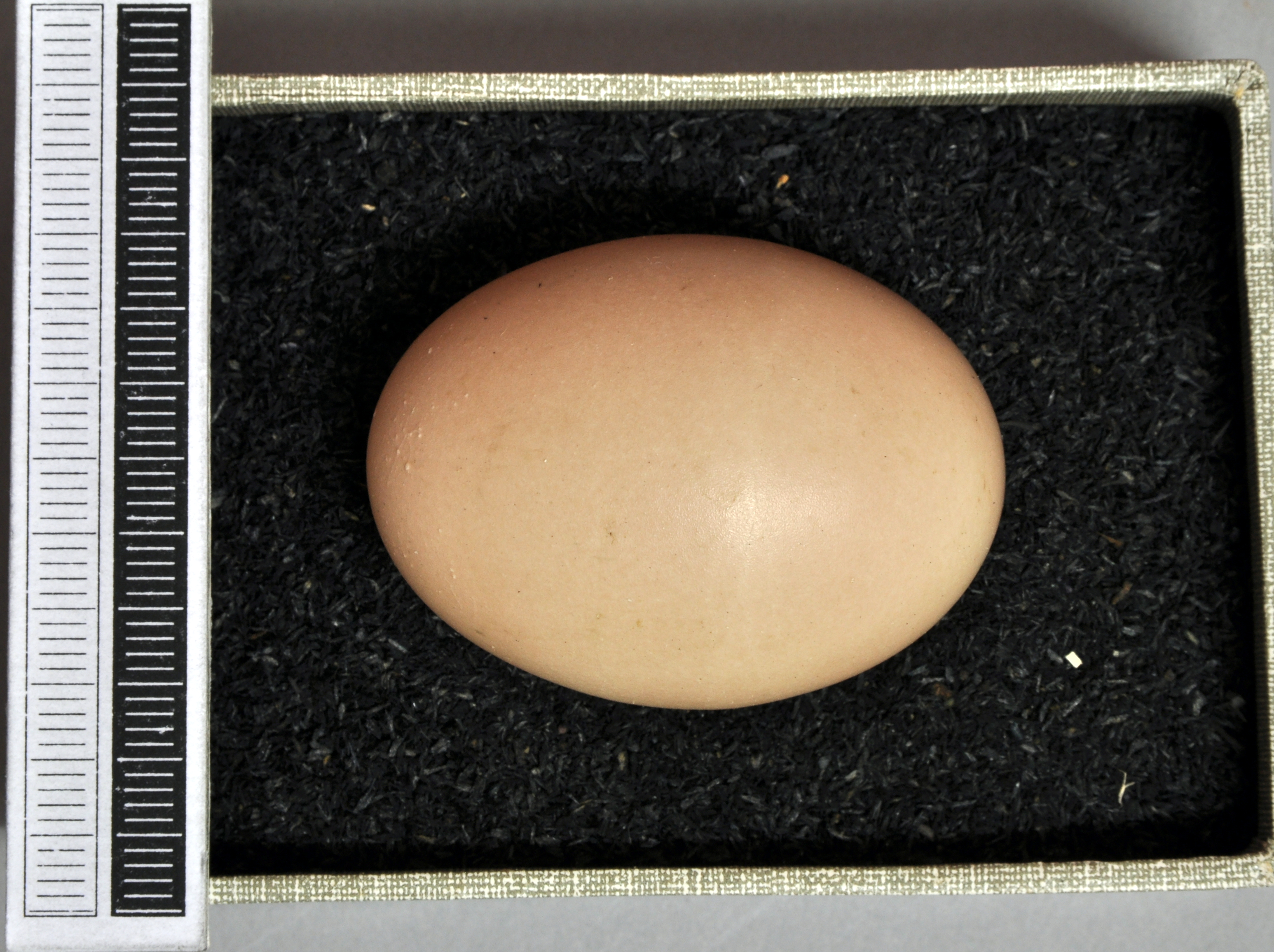 Pale-browed tinamou Crypturellus transfasciatus , egg, Coll. Museum Wiesbaden